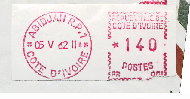 Meter stamp catalog image, Ivory Coast type B2